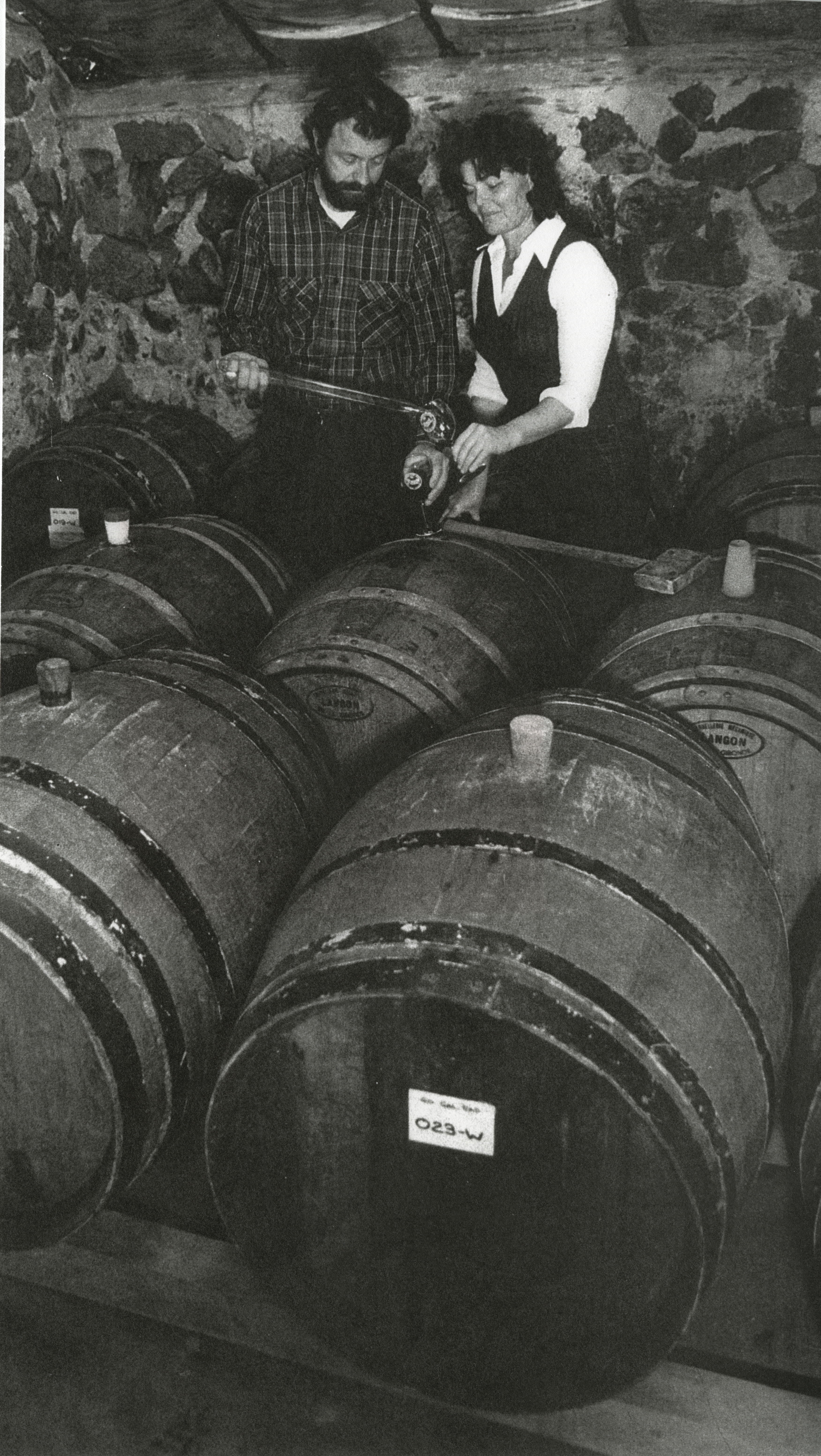 Dick and Nancy Ponzi test the wine in one of their barrels to insure the process is proceeding successfully.